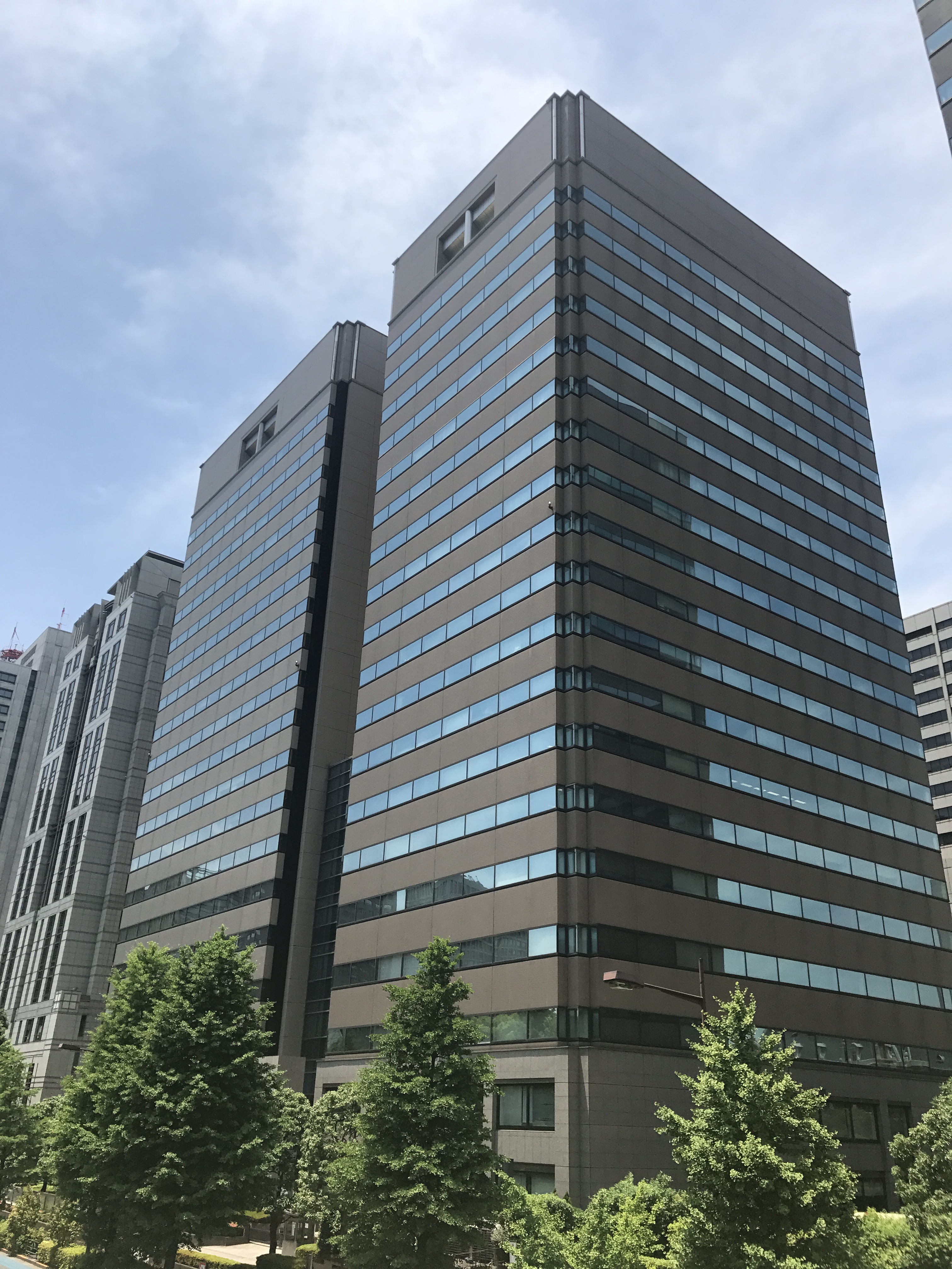 No.6B building of Japanese government office, 1-1-1, Kasumigaseki, Tokyo